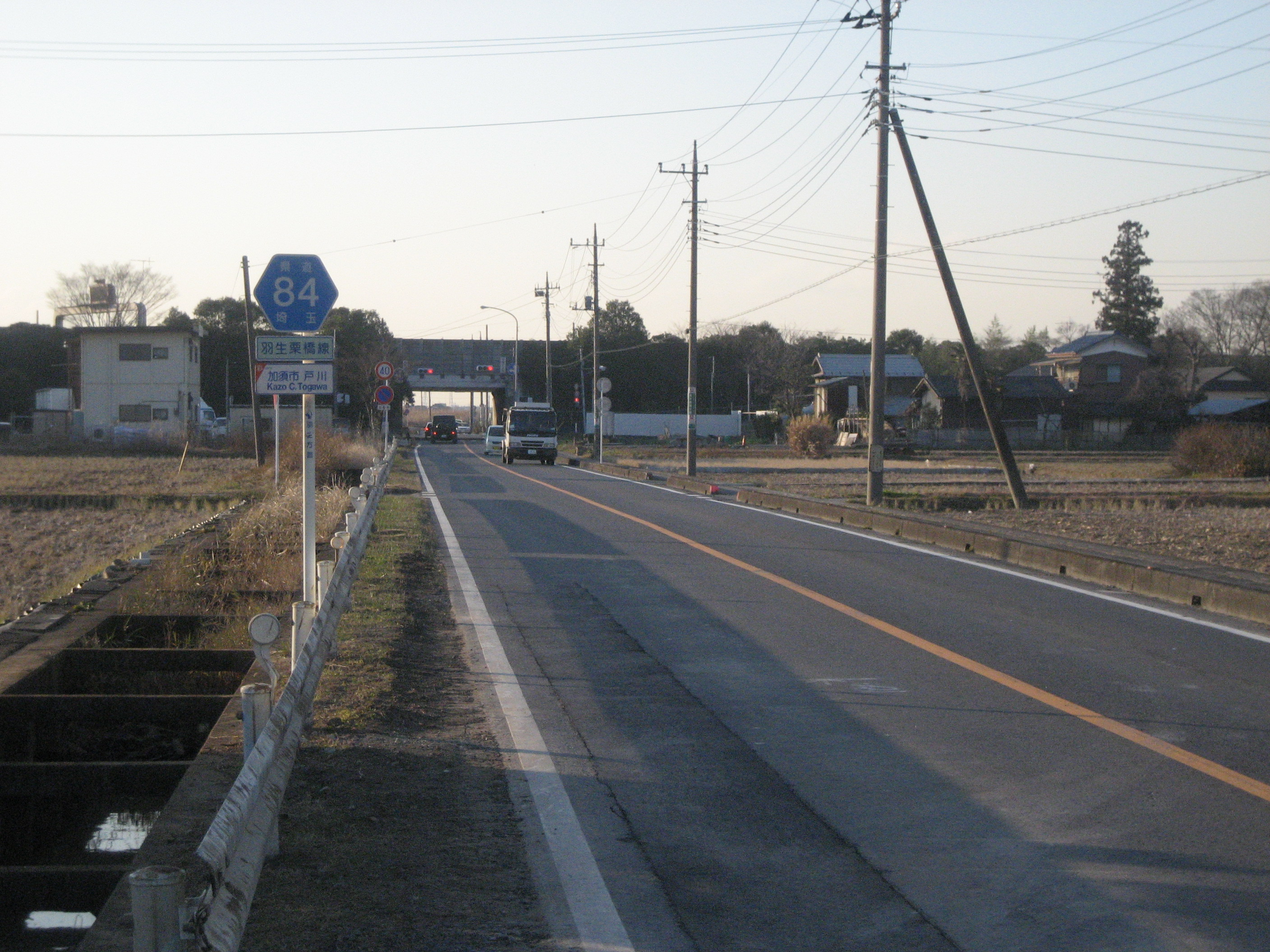 The Saitama Prefectural Road Route 84 in Kazo City